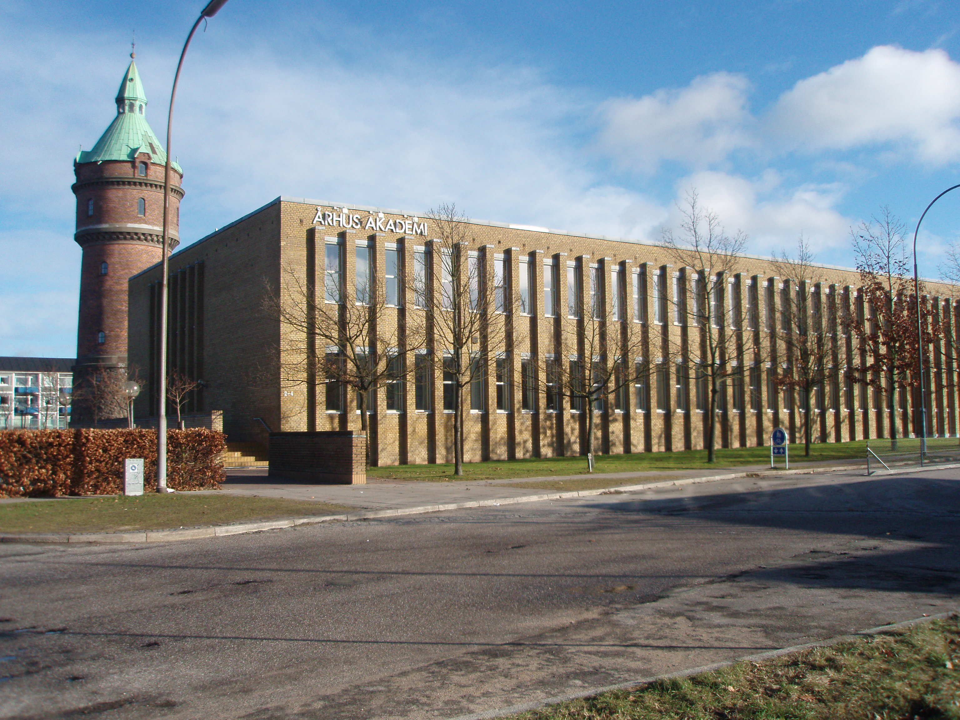 Århus Akademi with Vandtårnet på Randersvej in the background.